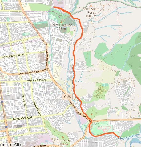 El canal La Florida o de la luz sale desde el canal San Carlos, 5 km tras su bocatoma, y conduce agua hasta la comuna de La Florida. Al reintegrarse al Canal San Carlos el agua pasa por una central hidroelectrica.